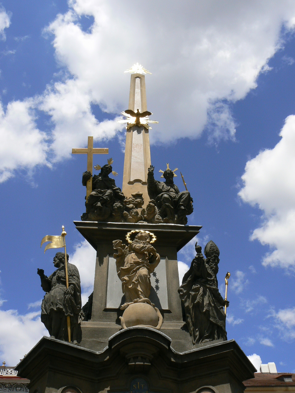 Holy Trinity Column in Lesser Town, Prague